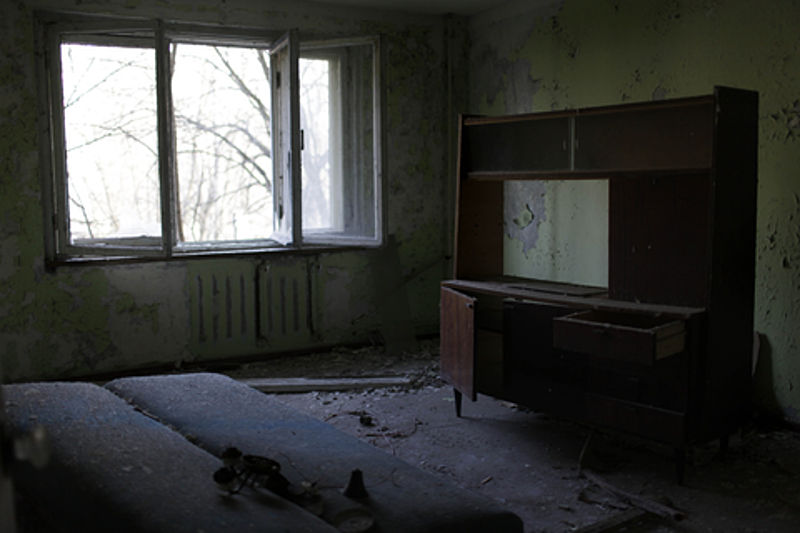 An abandoned room in an apartment in Pripyat.